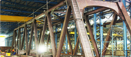 WIKA INDUSTRI & KONSTRUKSI